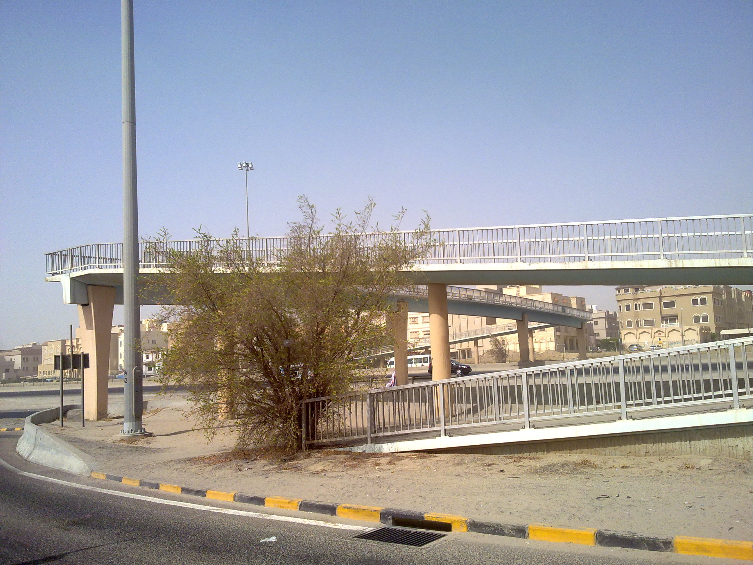 photos by irvin calicut This media file is uploaded with Malayalam loves Wikimedia event - 3.